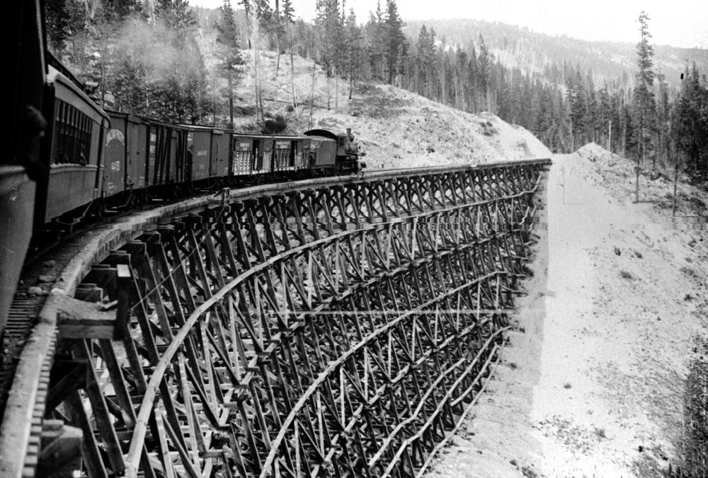 Train on the Kettle Valley Railway. This photograph shows a mixed train crossing a trestle at Sirnach Creek.